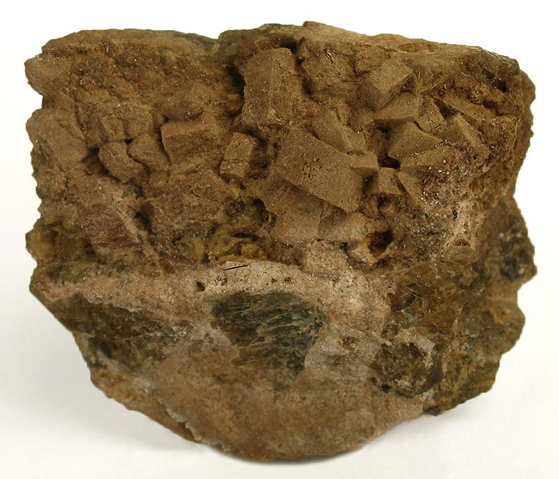 Gehlenite Locality: Monzoni Mts, Fassa Valley, Trento Province, Trentino-Alto Adige, Italy (Locality at ) Size: miniature, 4.3 x 3.7 x 2.2 cm Gehlenite A nice miniature featuring sharp crystals of gehlenite to 6mm, from the type locality for this calcium aluminosilicate species. Ex. John White Collection.